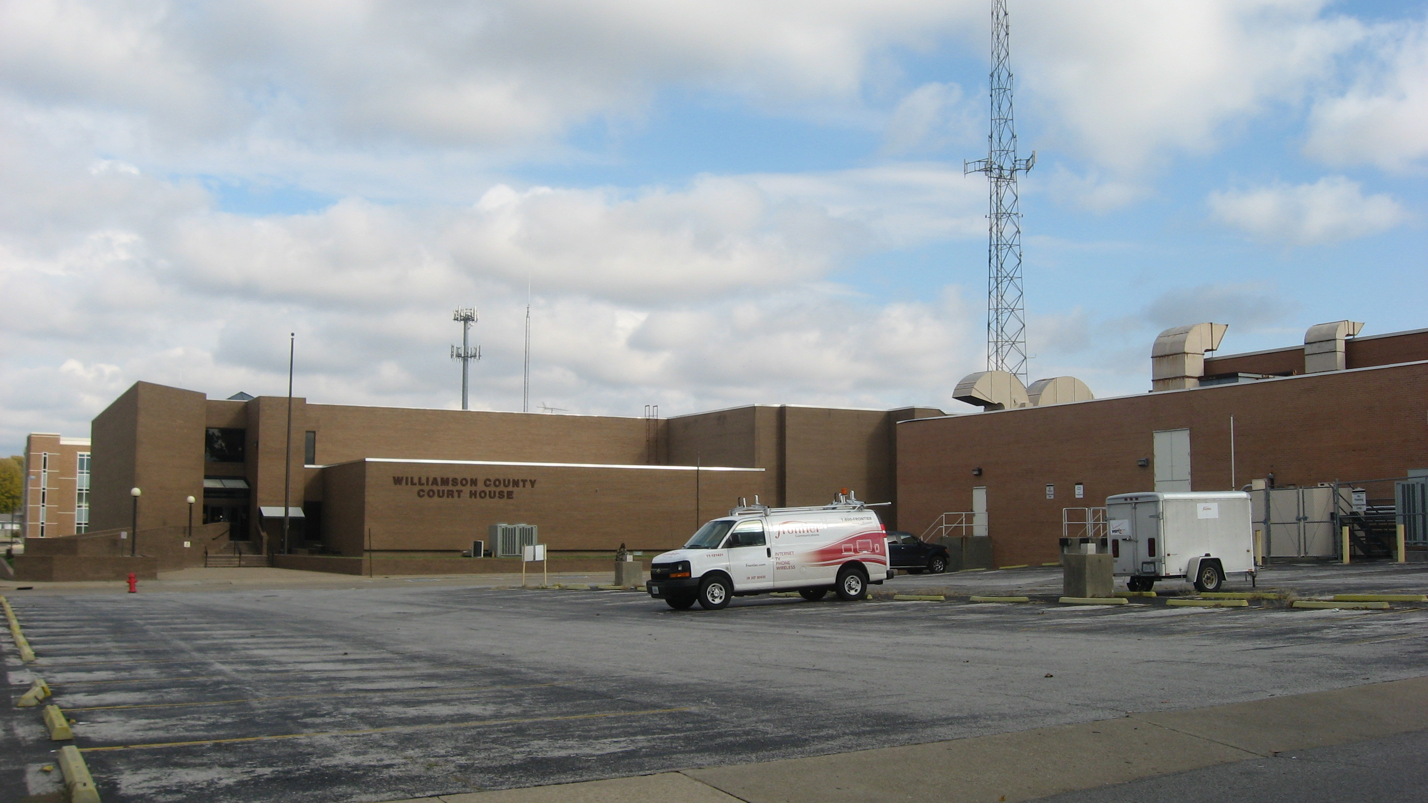 Southern front of the Williamson County Courthouse, located at 200 W. Jefferson Street in Marion, Illinois, United States. It was built in 1971.